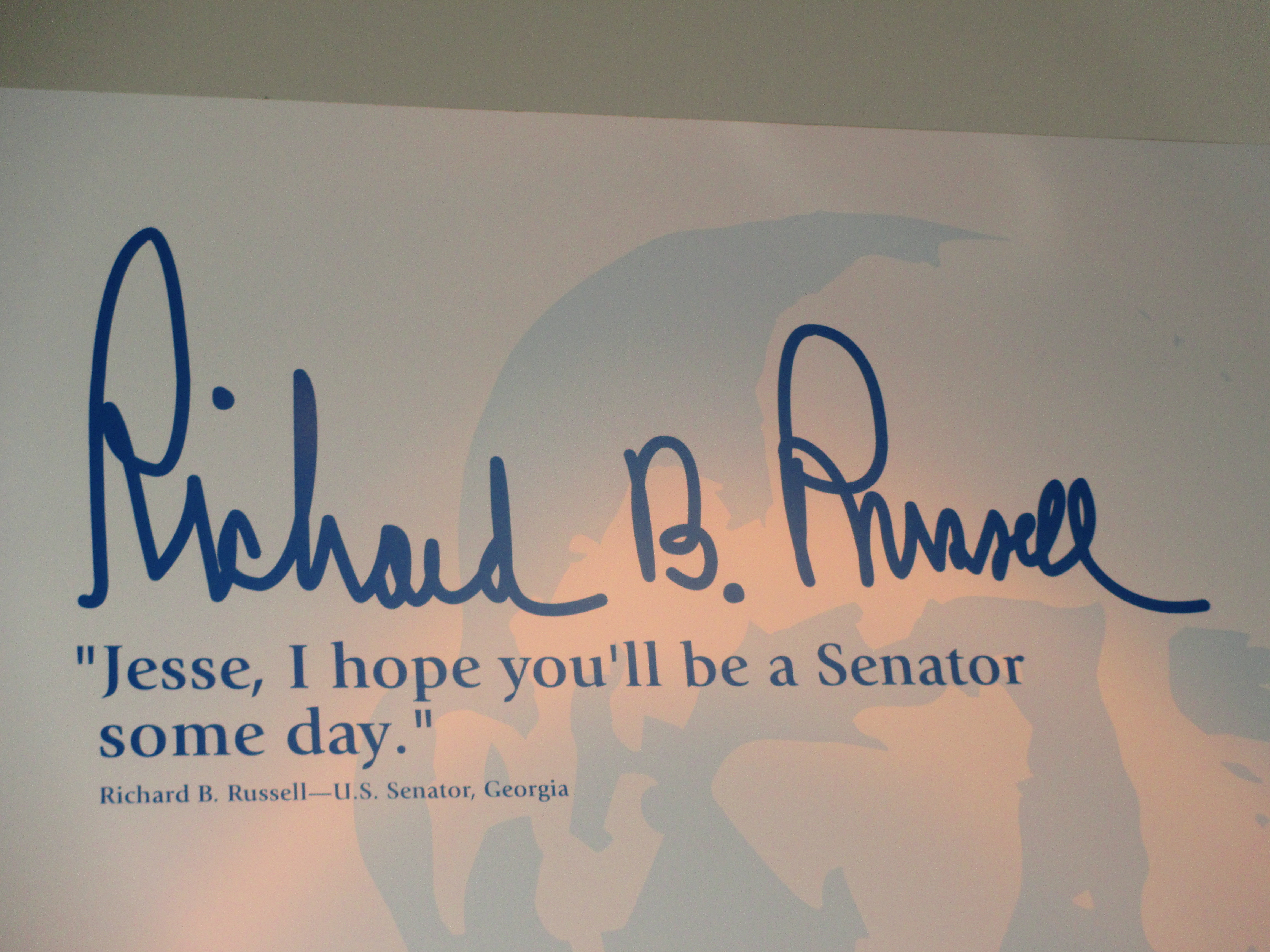 I took photo with Canon camera at Jesse Helms Center in Wingate, NC.